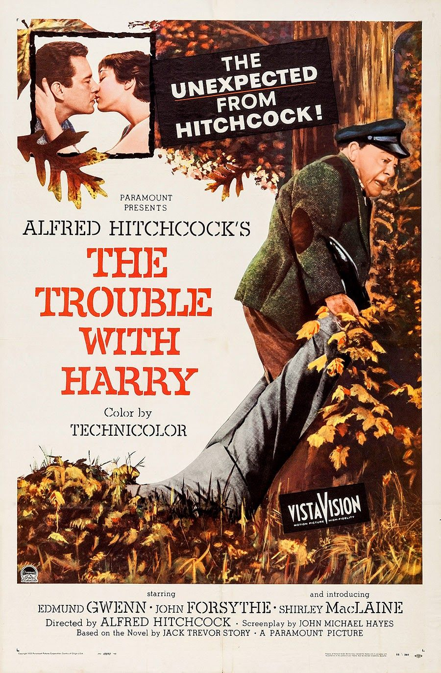 Theatrical poster for the film The Trouble with Harry (1955).